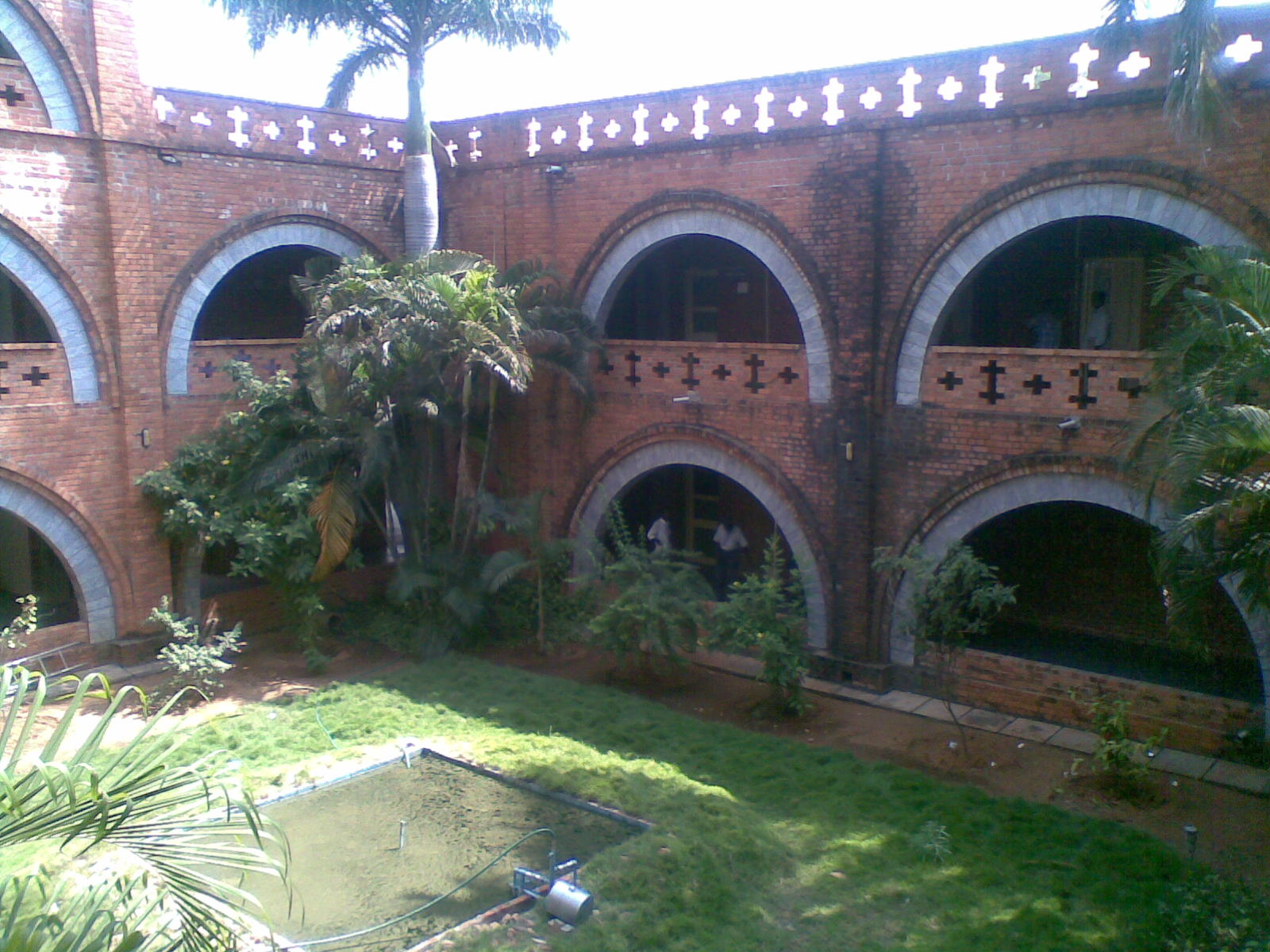 This photo depicting the inner view of Manomaniam Sundaranar University building